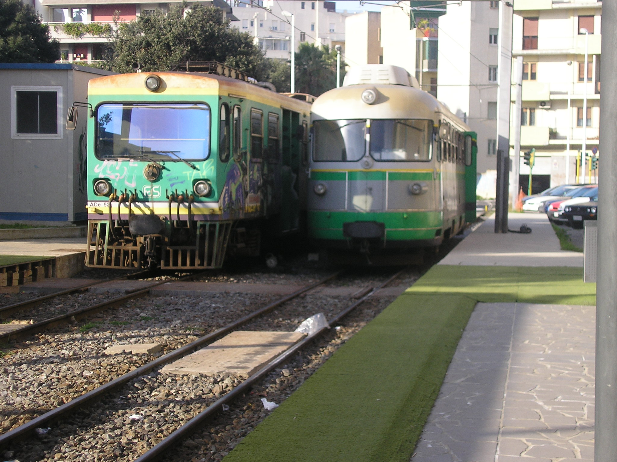 Diesel multiple units ADe of Ferrovie della Sardegna waiting in the former halt of largo Gennari in Cagliari, Sardinia, Italy, terminus of the railway Cagliari-Isili from 2004 until 2008 and now halt of the light railway of Cagliari